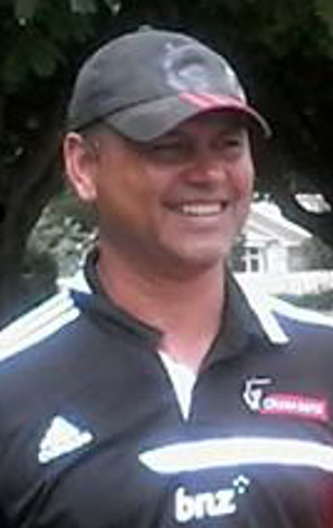 Tabai Matson in Fiji during hte PNC